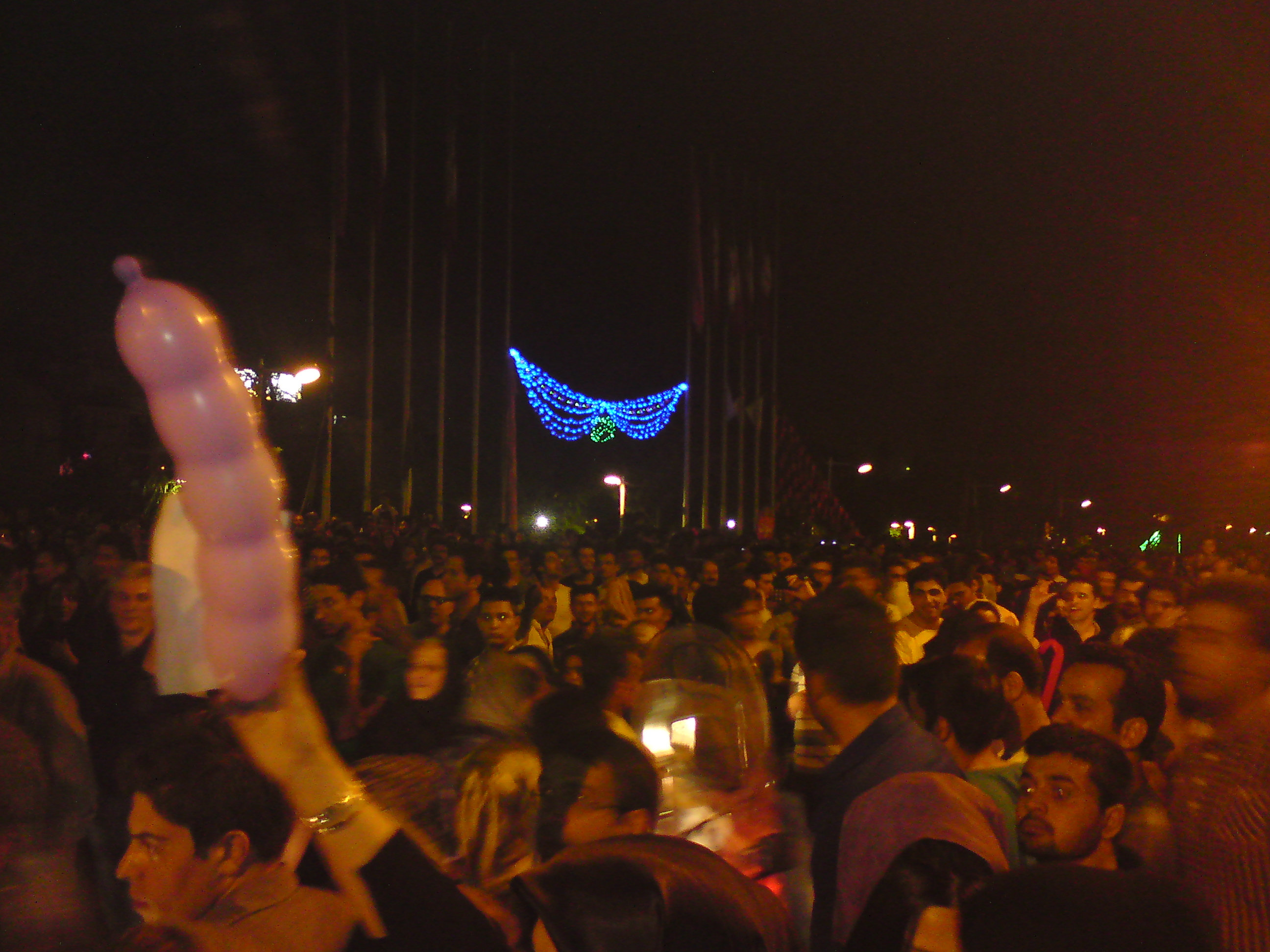 celebration after election 2013 in Tehran